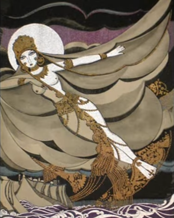 Annie Fishs illustration of 1922 Rubaiyat of Omar Khayyam - published in London and New York in 1922